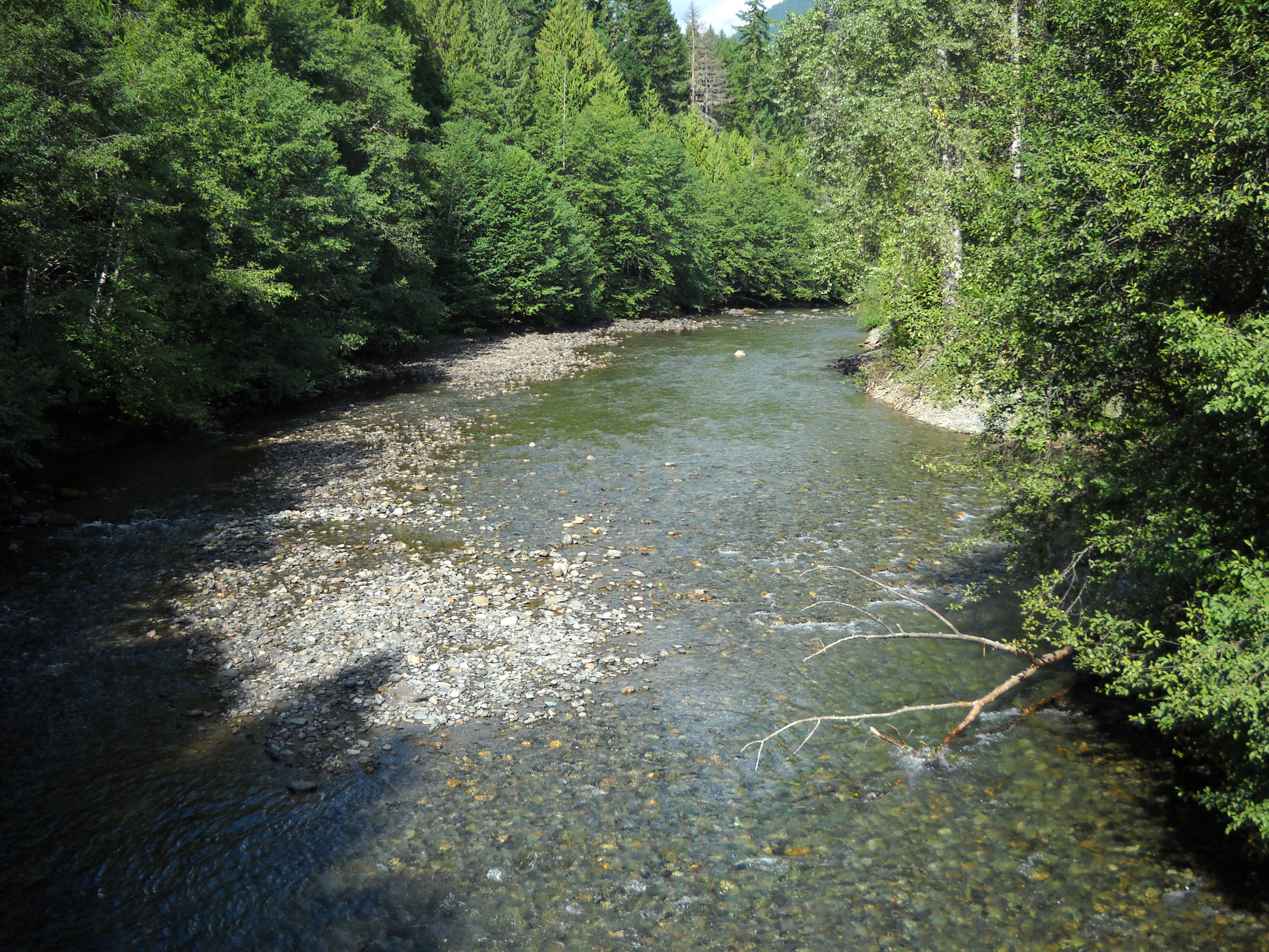 The Skagit River, seen from 26 Mile Bridge along Silver Skagit Road in British Columbia, Canada.